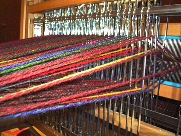 Rear view of the shed on a four-harness table loom.